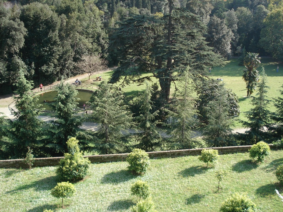 Park of Villa Negrotto Cambiaso in Arenzano